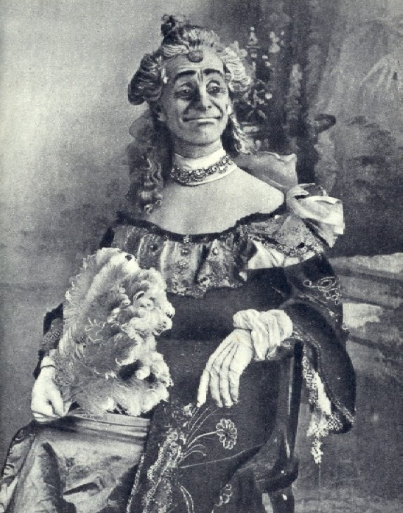 Dan Leno as Mother Goose Source: a en:1946issue of Lilliput (magazine)